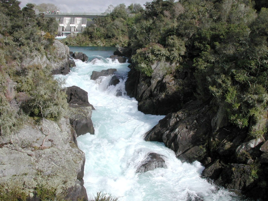 Aratiatia Rapids with opened spill gates - see also Aratiatia Rapids before spill gates opened.